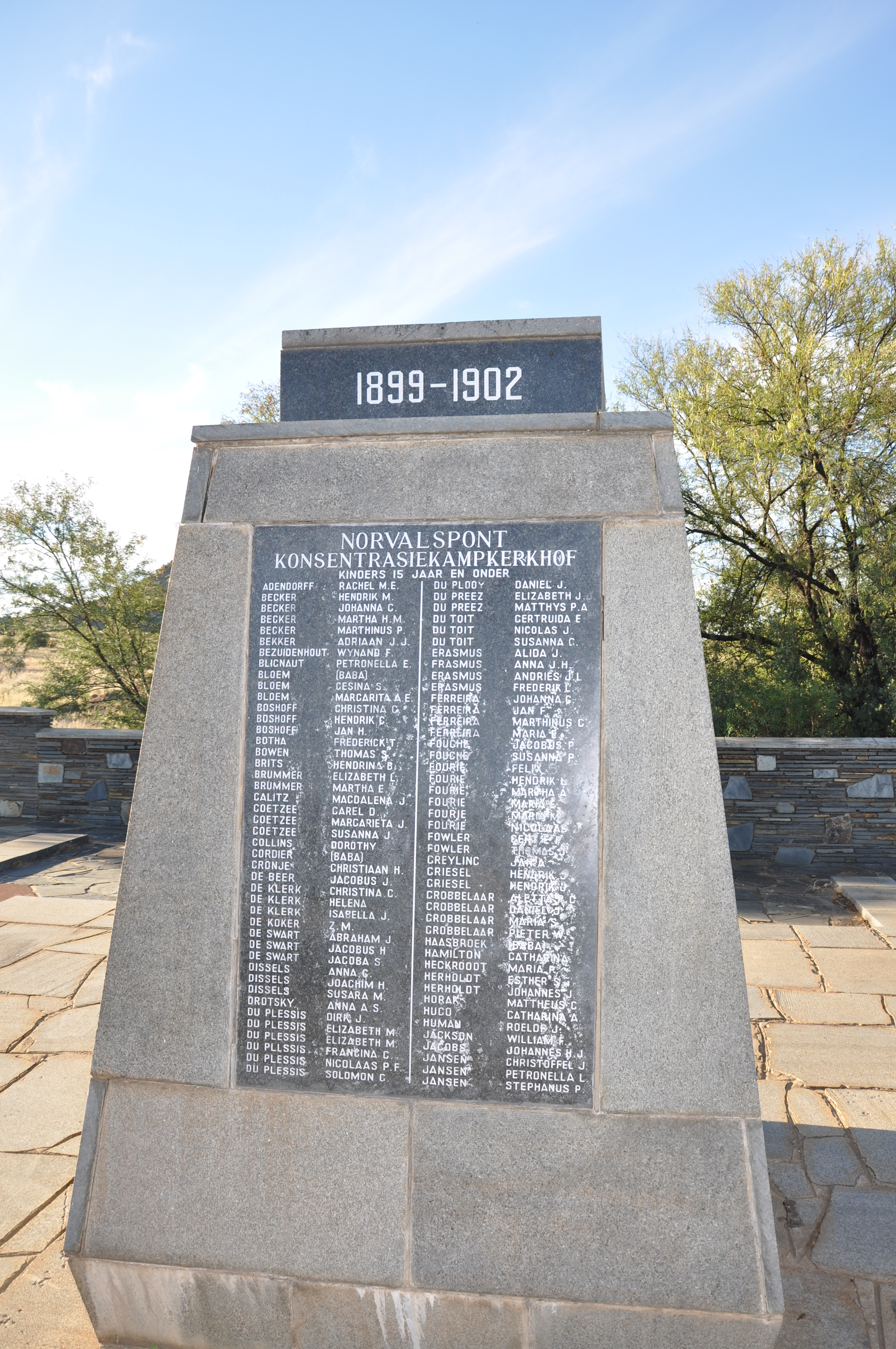 Anglo Boer war concentration camp memorial for woman and children who died while prisoners. This media shows a South African Protected Site with SAHRA file reference New.